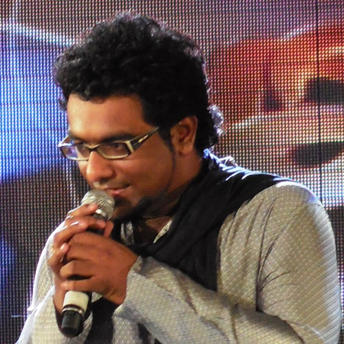 Haricharan in 2013